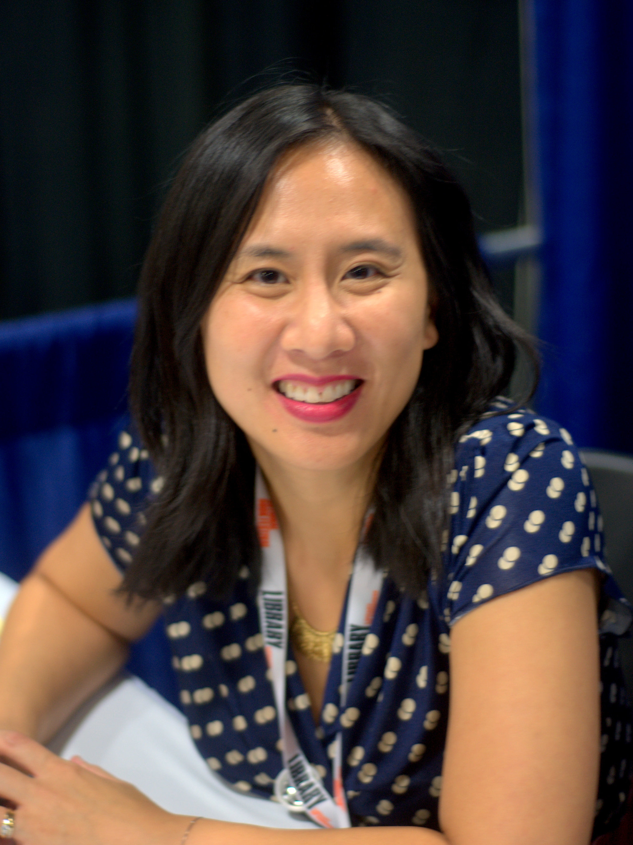 2018 National Book Festival